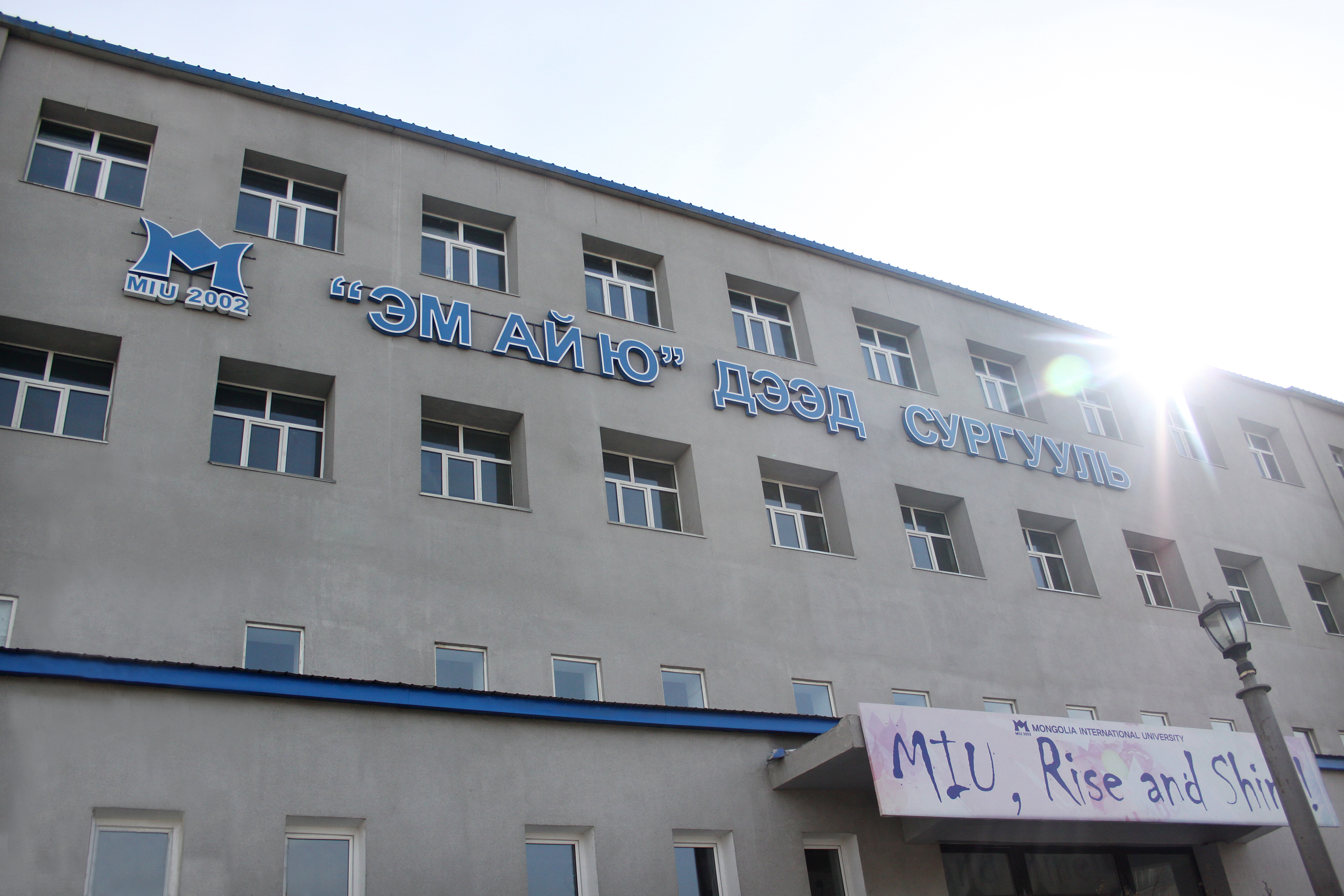 Exterior of MIU's Main Building